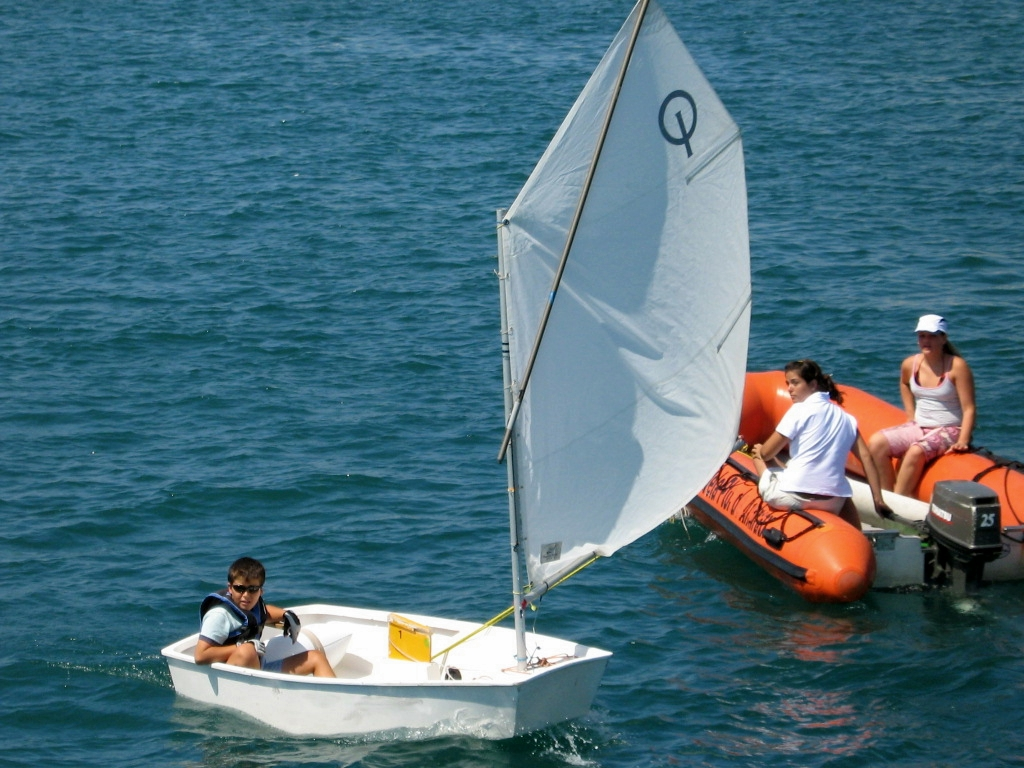 Spain, Majorca, in the harbor of Port d'Andratx: Boy in a youngster-sailing boat/type "optimist".